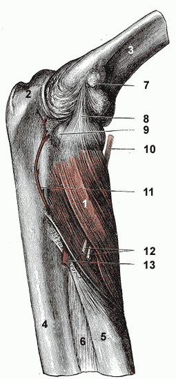 Supinator muscle of the forearm 1 Musculus supinator 2 Olecranon 3 Humerus 4 Ulna 5 Radius 6 Membrana interossea 7 Epicondylus lateralis humeri 8 Lig. collaterale radii 9 Caput radii 10 Deep branch of Nervus radialis 11 Arteria recurrens interosseus 12 Deep branch of Nervus radialis 13 Arteria interosseus dorsalis